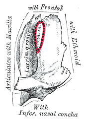 Left lacrimal bone. Orbital surface. Enlarged. Gray163.